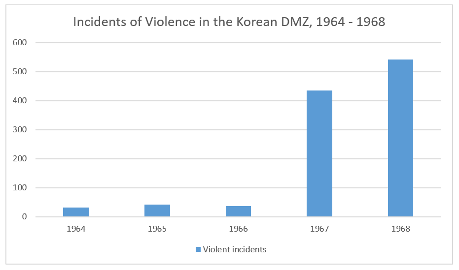 This chart was based upon Table 1 on page 14 of Flash Point North Korea: The Pueblo and EC-121 Crises by Richard A. Mobley (Annapolis, Maryland: United States Naval Institute Press, 2003) which was derived from public domain sources cited in this book.